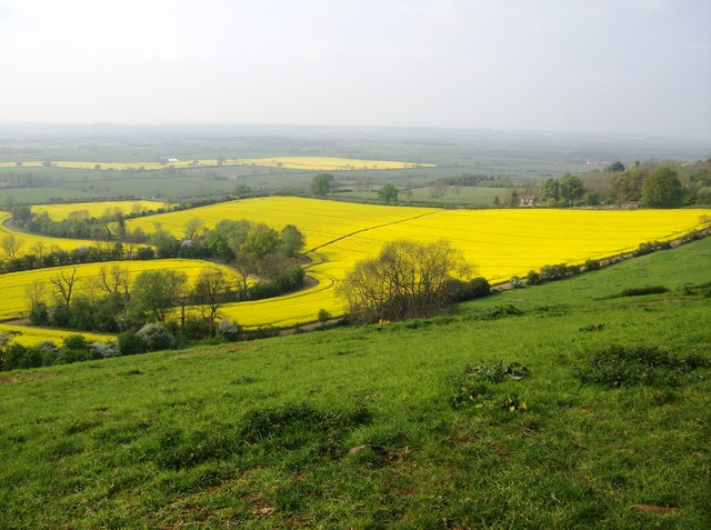 View from Spring Hill. This view from Spring Hill is north west, looking towards a twisty stream and two springs that rise here shown on the 1:25K map. At the right hand end of the rape crop is the A422 descending Sunrising Hill, just in the next square. This picture 461661 shows the view to the west.